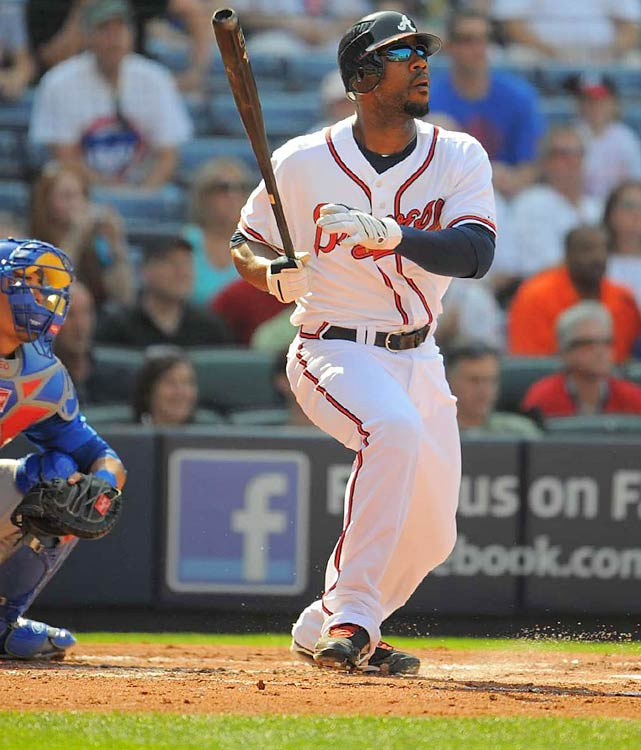 jason heyward hitting a homerun in his first major league at bat.